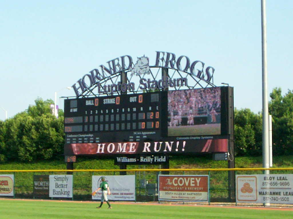 The scoreboard at Lupton Baseball Stadium on the campus of Texas Christian University (TCU)